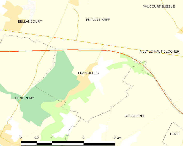 Map of French municipality Francières